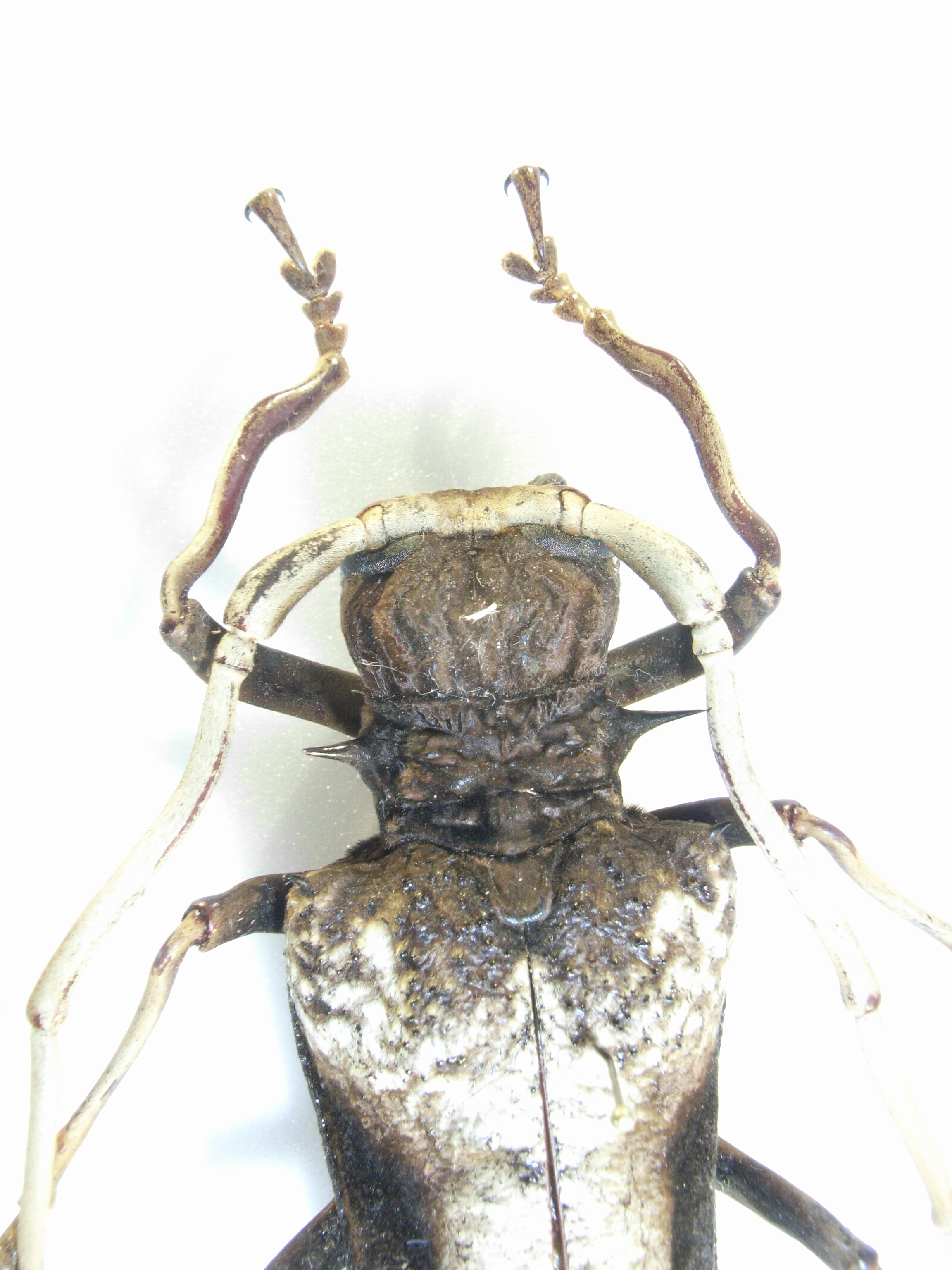 Petrognatha gigas Ex coll. Felix Stumpe